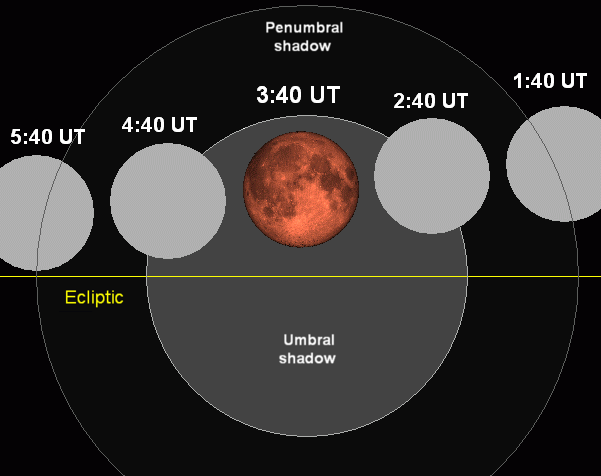 May 2003 lunar eclipse chart of moon's total lunar eclipse path through the earth's shadow. thumb